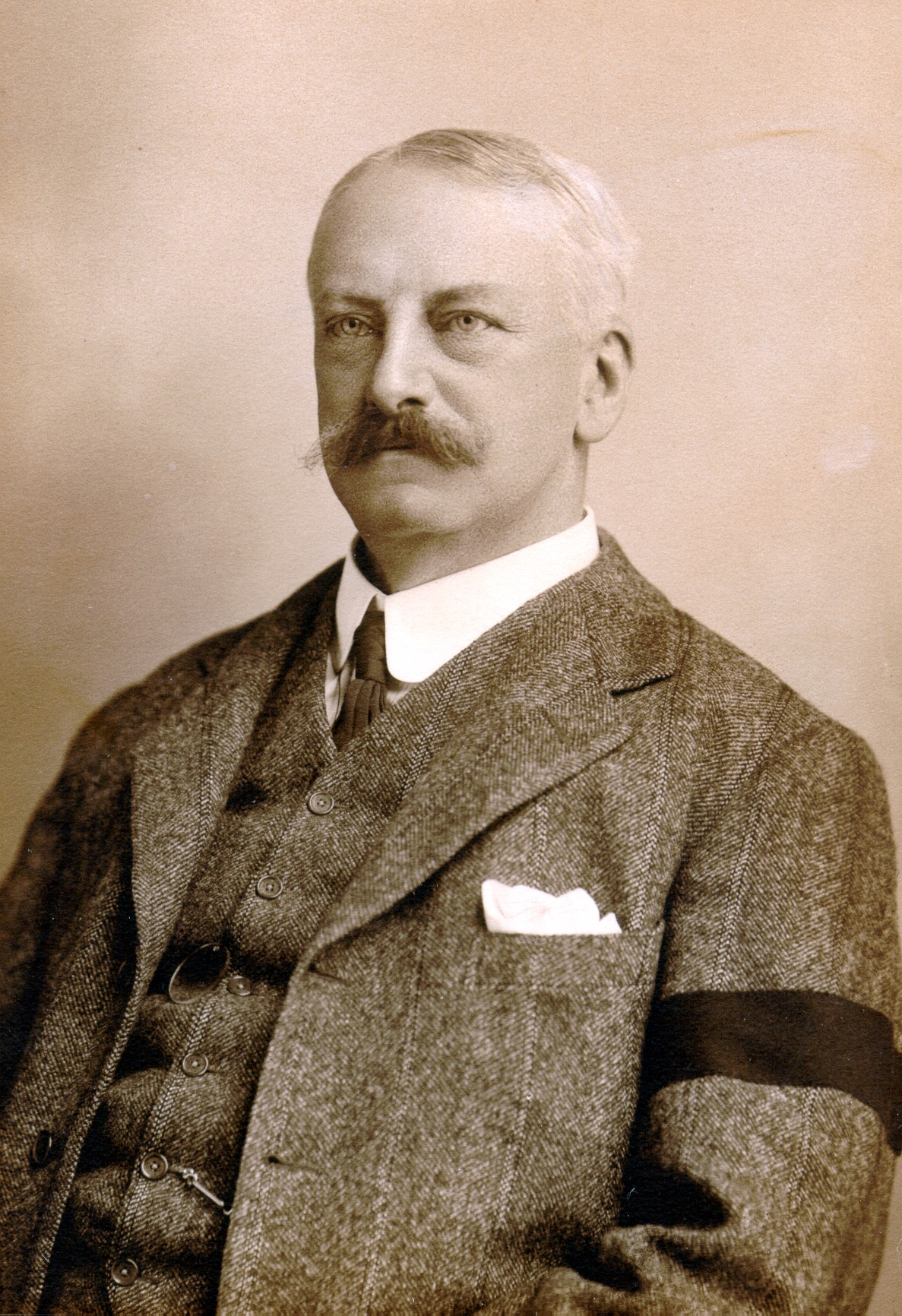 The portrait is by photographer G. Chaplin Jones, Kingston-on-Thames, ca. 1905. Wolfenden wears a black armband either for the death of his father or his first wife.